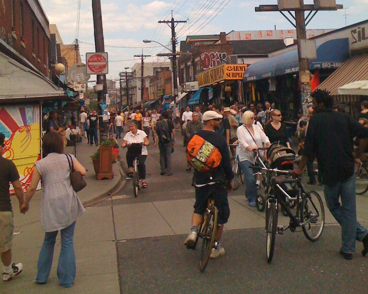 Kensington Market on a Pedestrian zone Sunday.